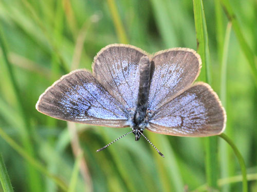 Phengaris nausithous, dorsal view, photographed in the canton of Vaud, Switzerland